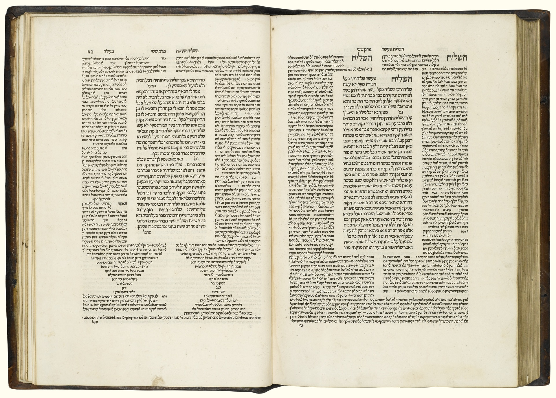 The Babylonian Talmud published by Daniel Bomberg 1519-1523.